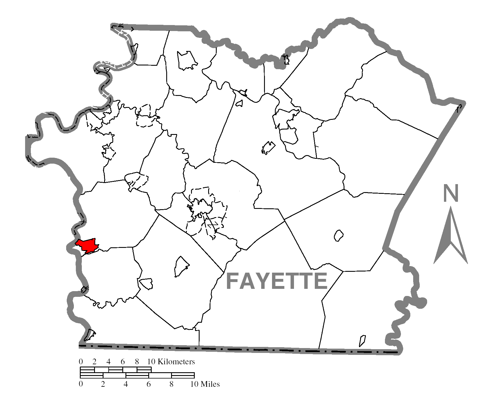 Map of Fayette County higlighting Masontown.